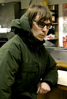 Cropped version of File:Jason DeGroot at Belladonna a.k.a. Disco Pizza (4355061993).jpg